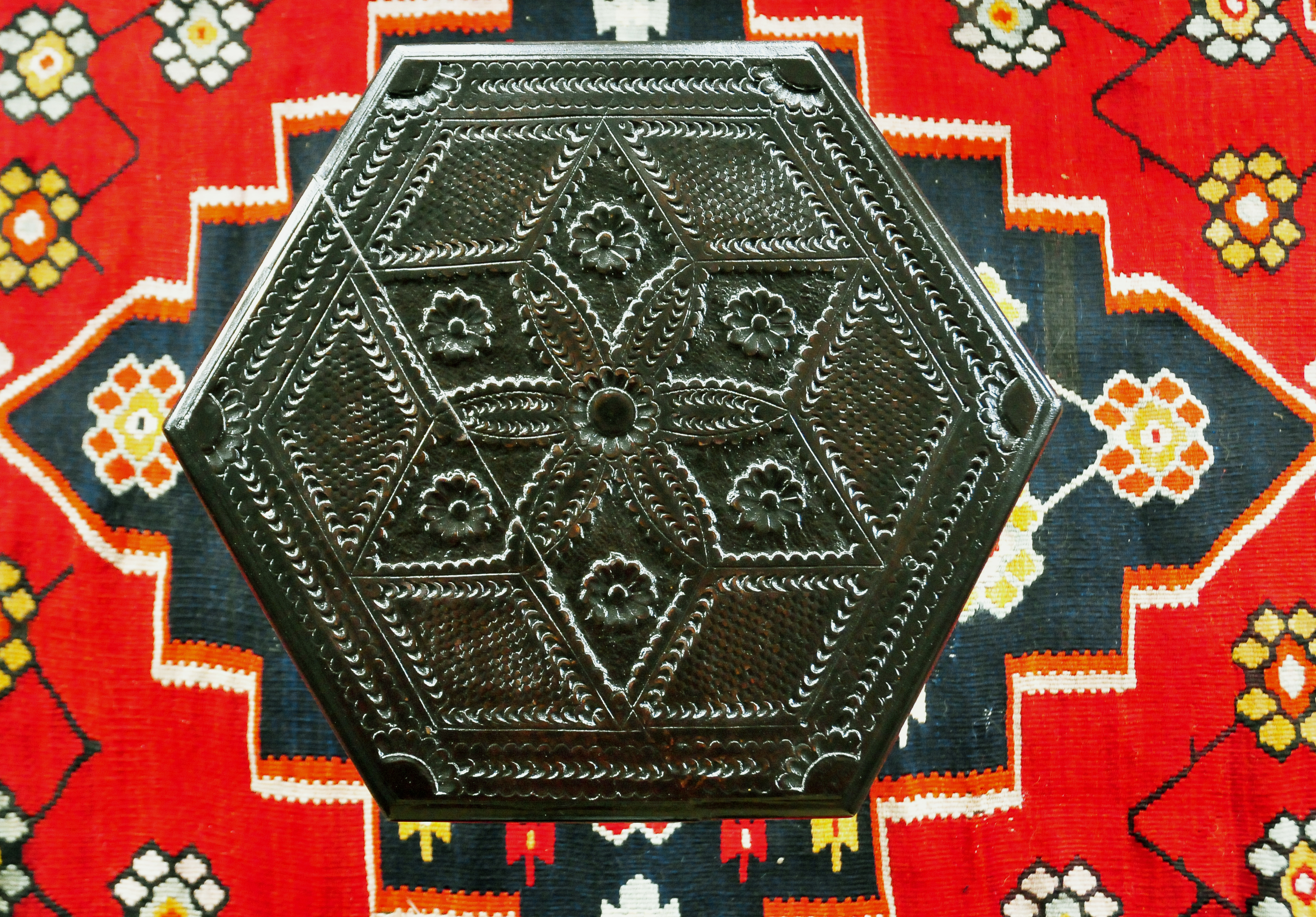 Stool and carpet at the "Ottoman House". Mostar, Herzegovina-Neretva, Bosnia and Herzegovina